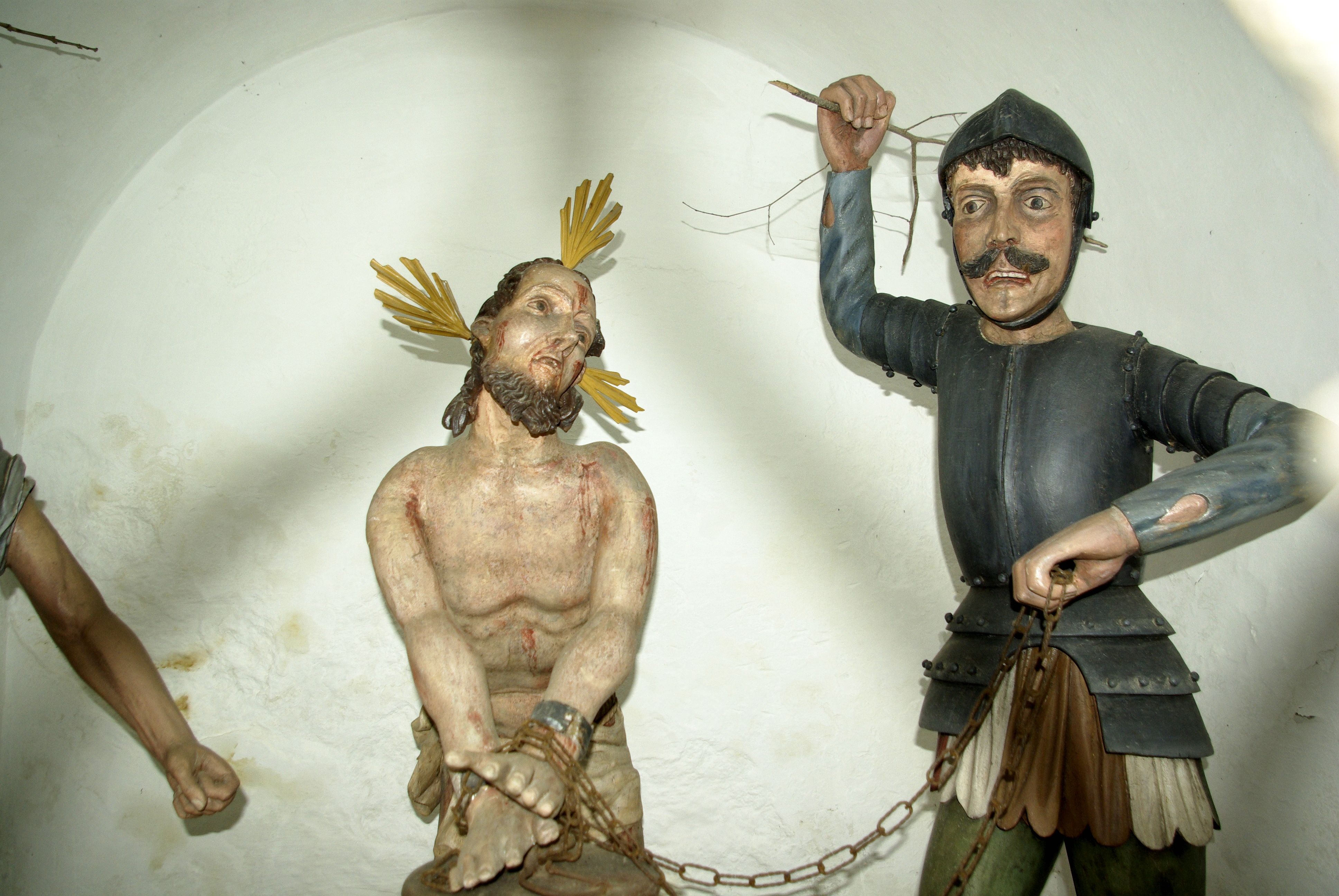 Details of Via Crucis wooden sculptures of Castelrotto (~1670)